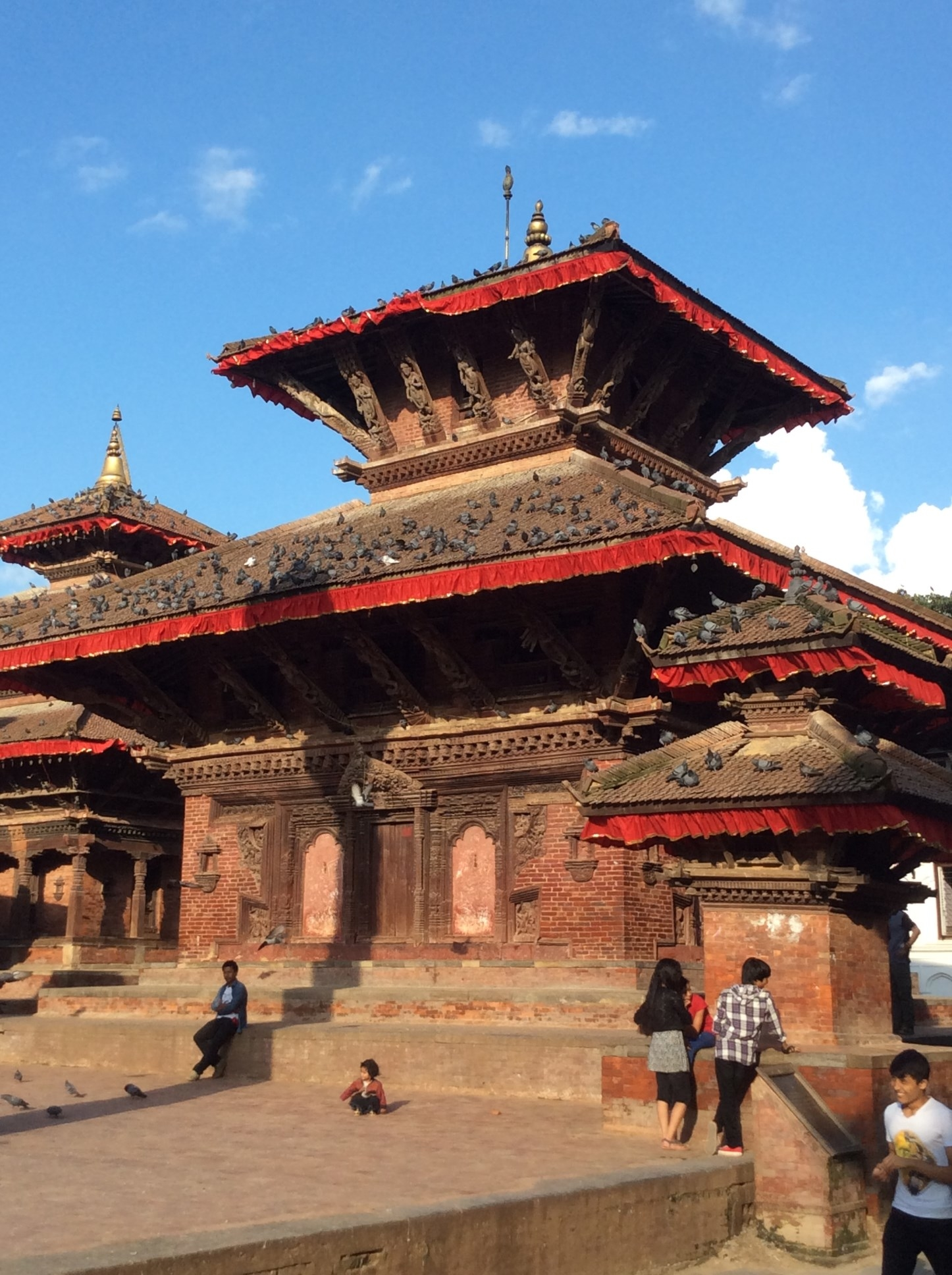 Kathmandu Valley (Nepal)